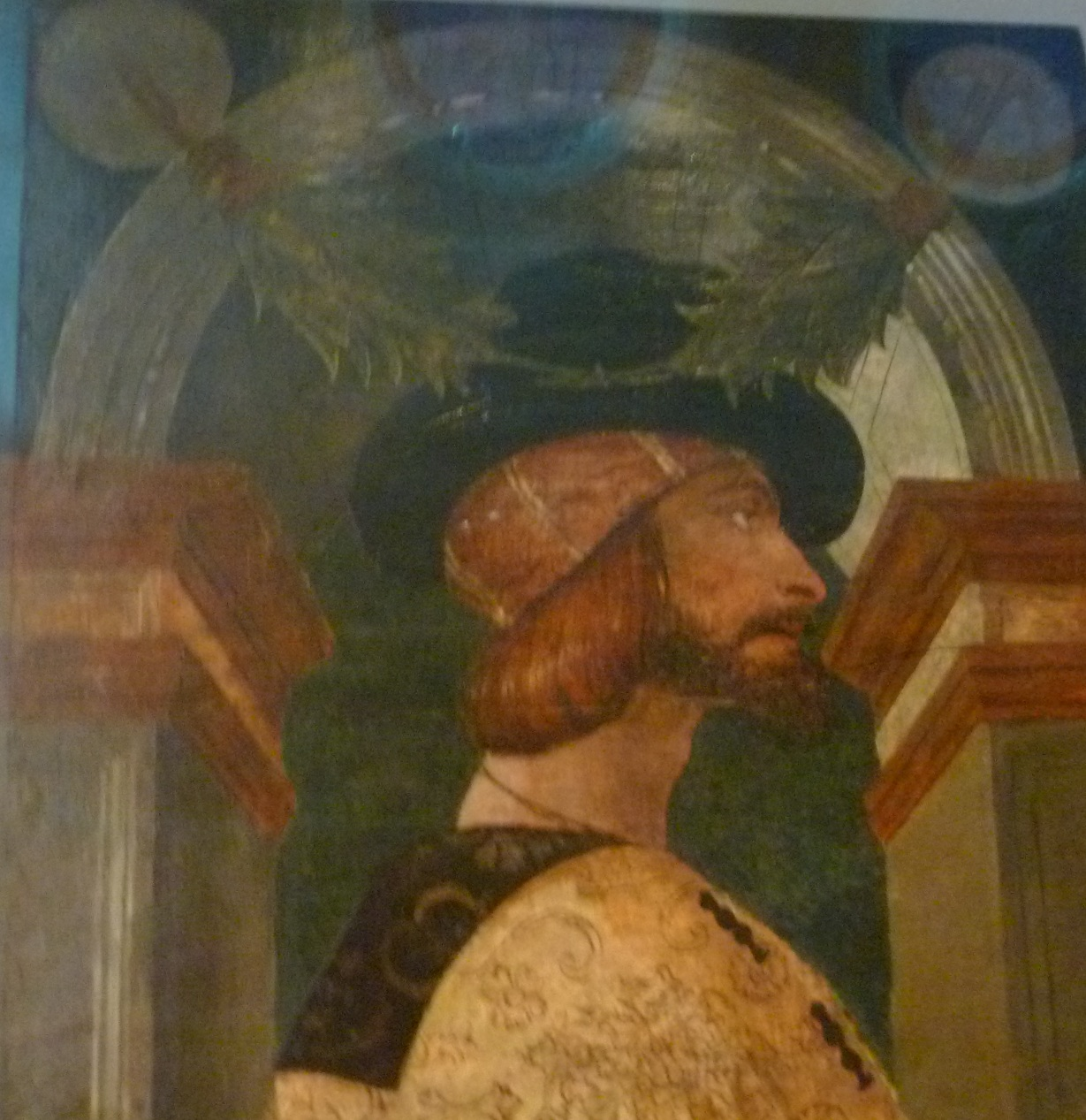 Likely portrait of Theodoros Paleologos